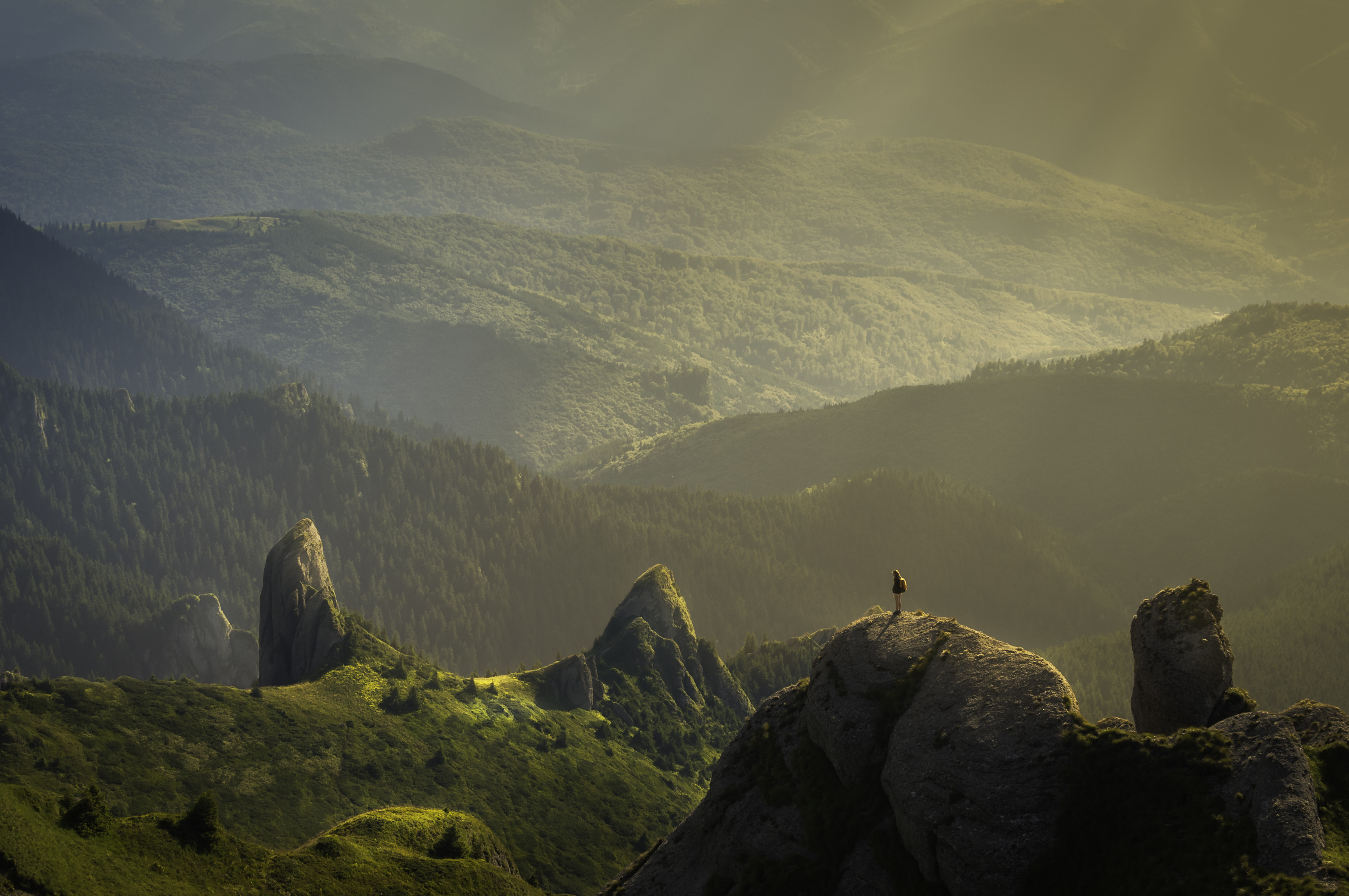 Ciucaș Peak, Romania